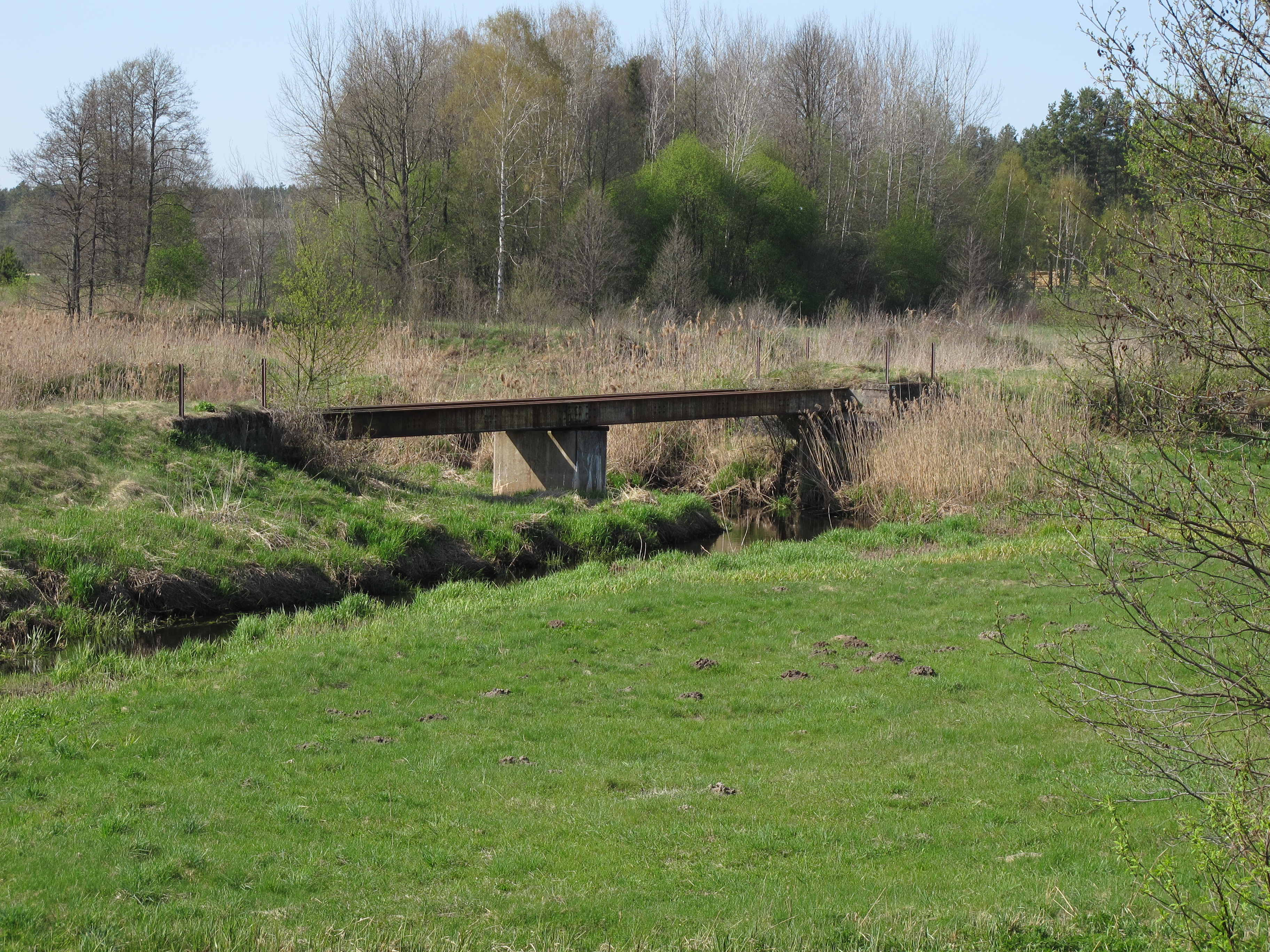 Remains of a Knyszyn Forest Narrow Guage railway bridge over Supraśl river near Słuczanka village, gmina Gródek, podlaskie, Poland